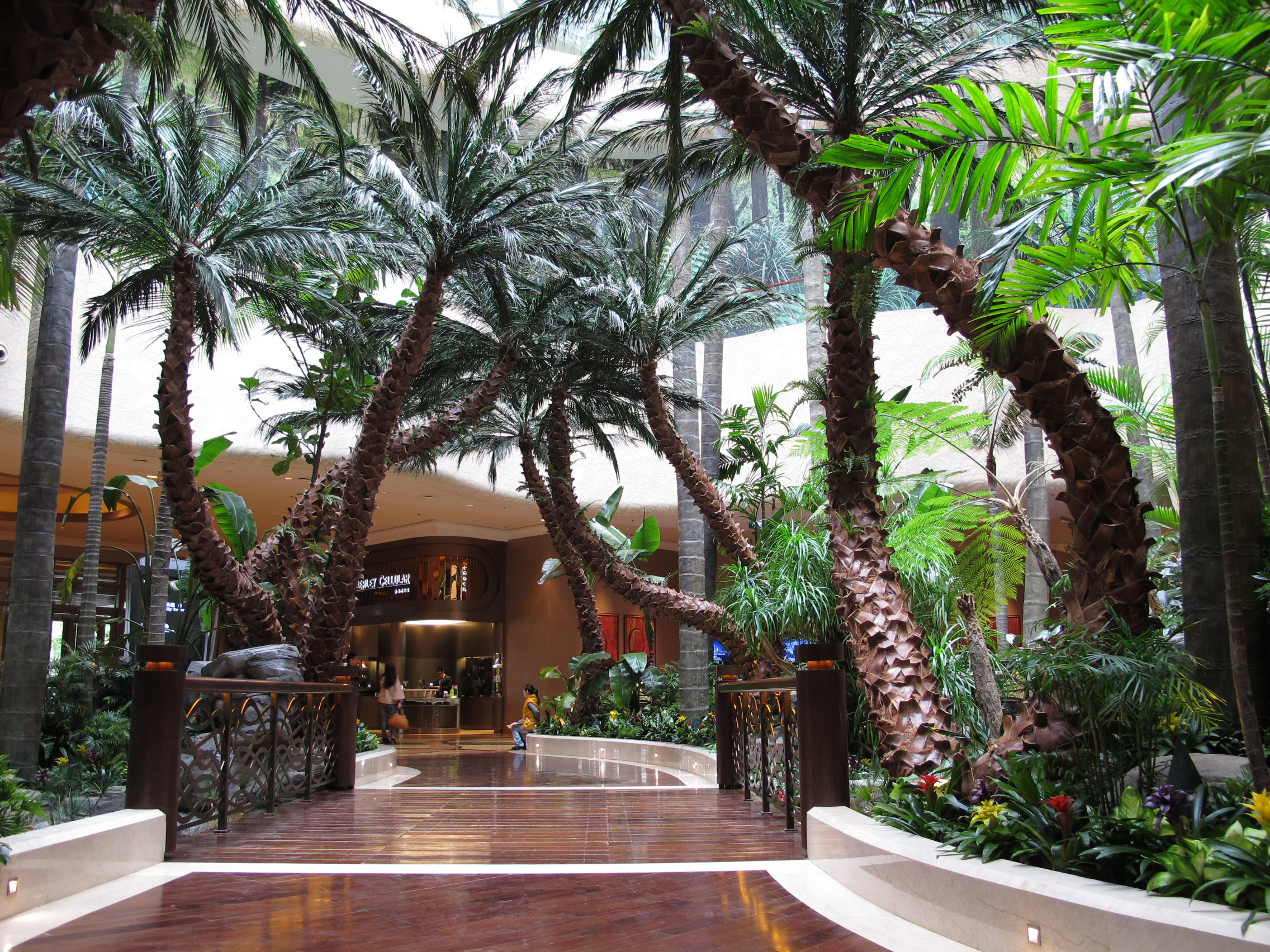 Sands Cotai Central Palms